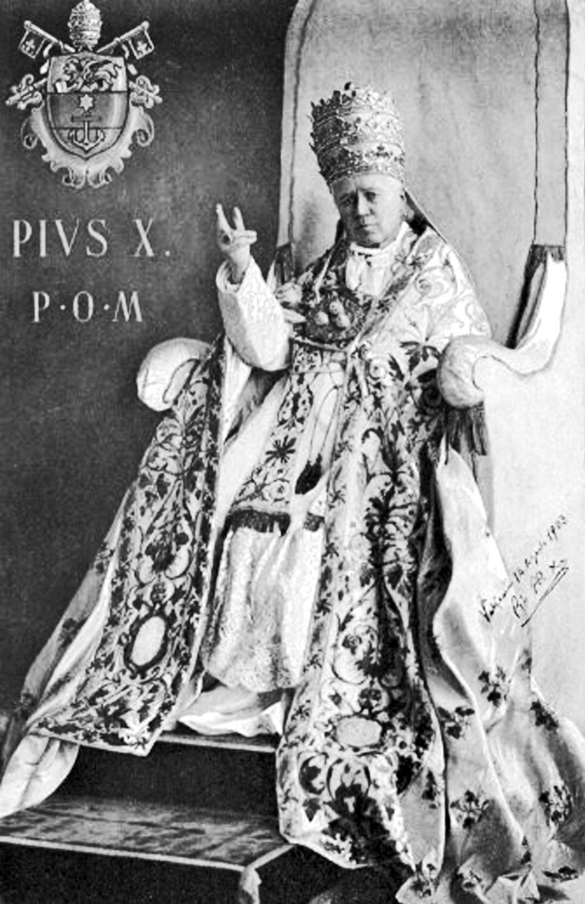 Pope Pius X. Official portrait taken shortly after his inthronisation in August 1903